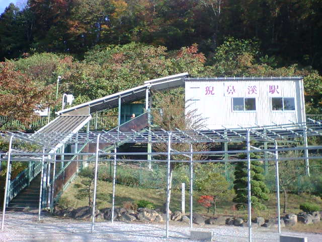 Geibikei Station on Ofunato Line. Ichinoseki City, Iwate Prefecture, Japan